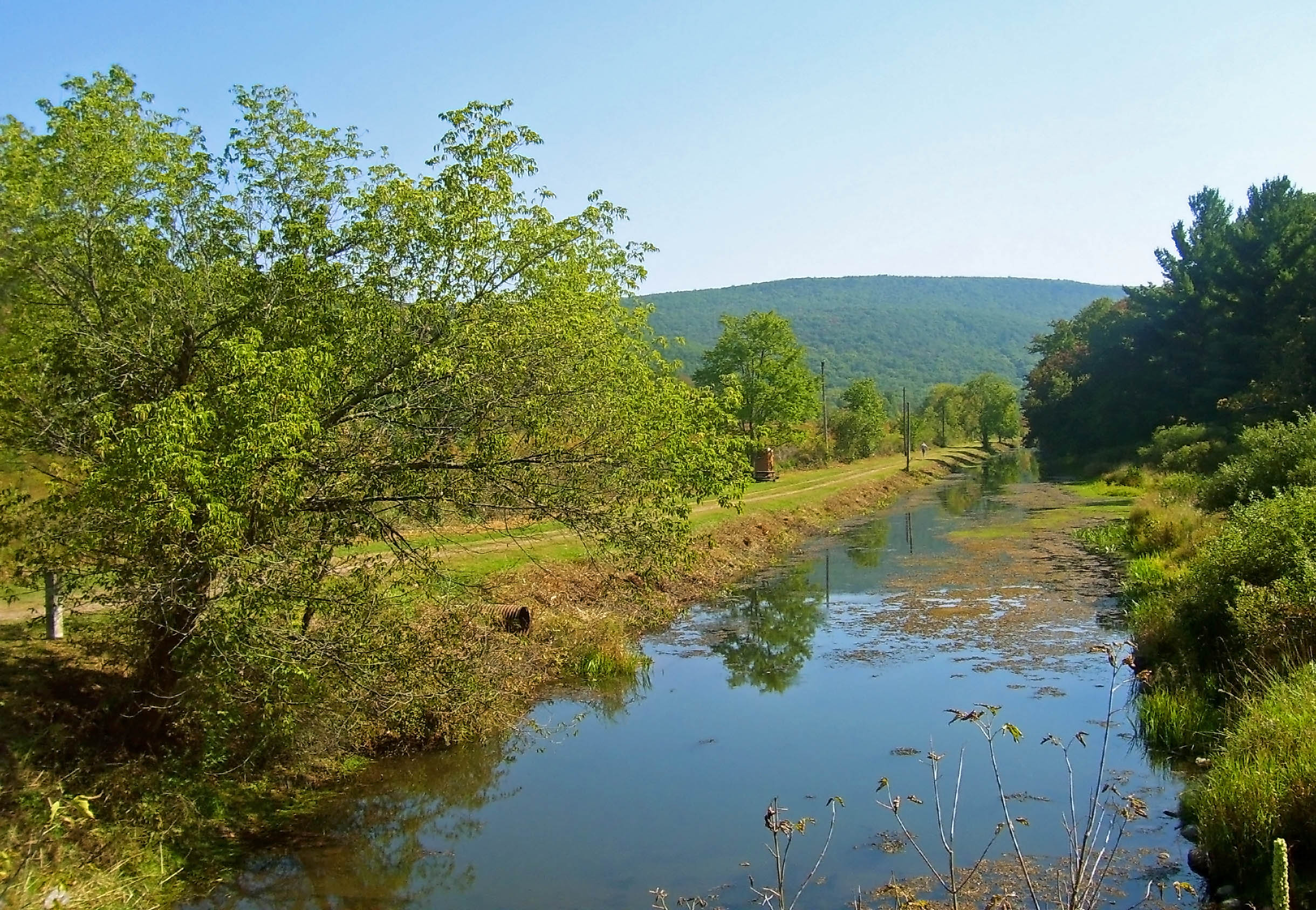 A remaining section of the Delaware and Hudson Canal off US 209 near Summitville, NY, USA, that Sullivan County has declared a linear park. The Shawangunk Ridge is visible in the rear.